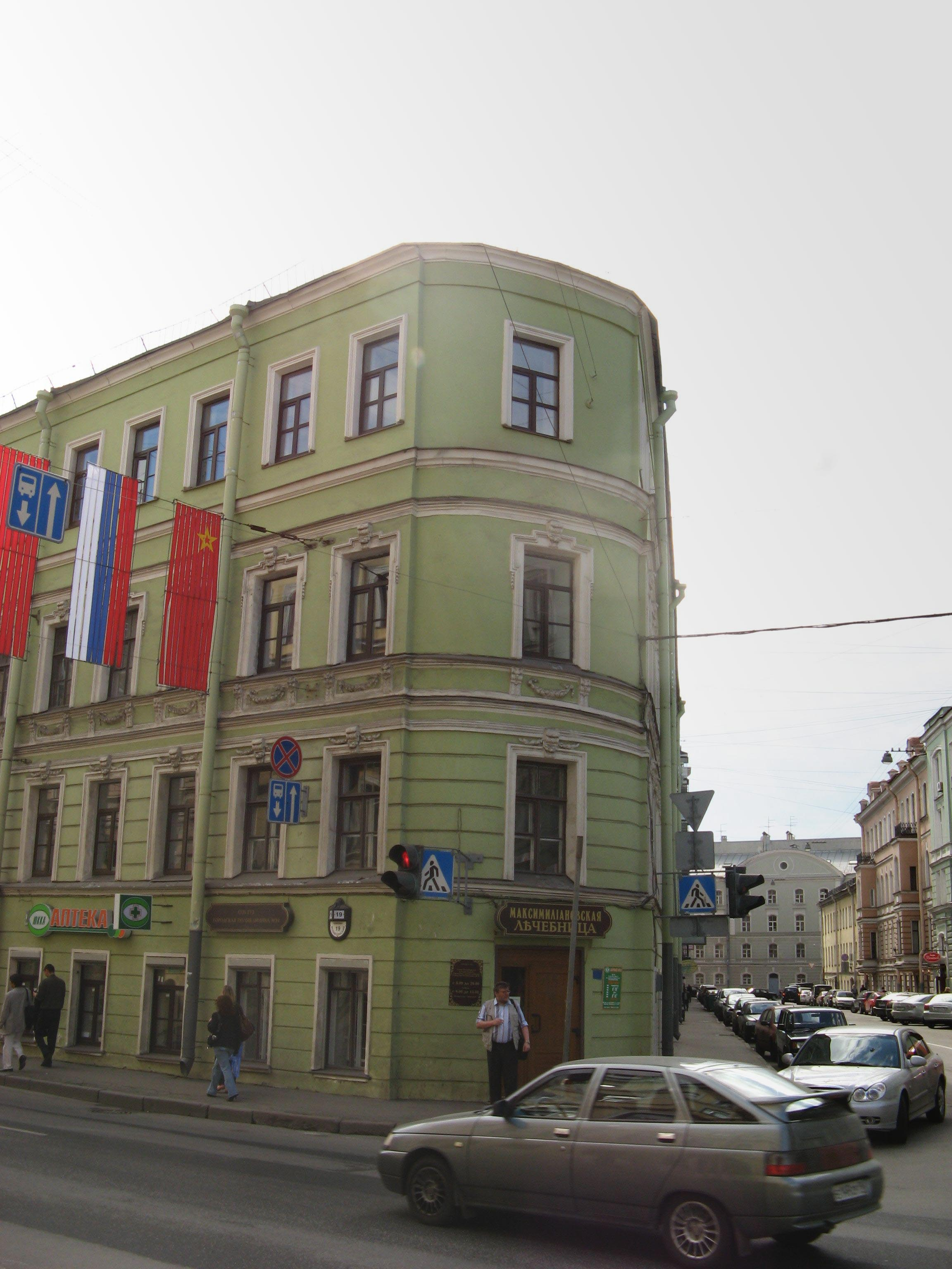 Kazanskaj street, 54 (Saint-Petersburg)